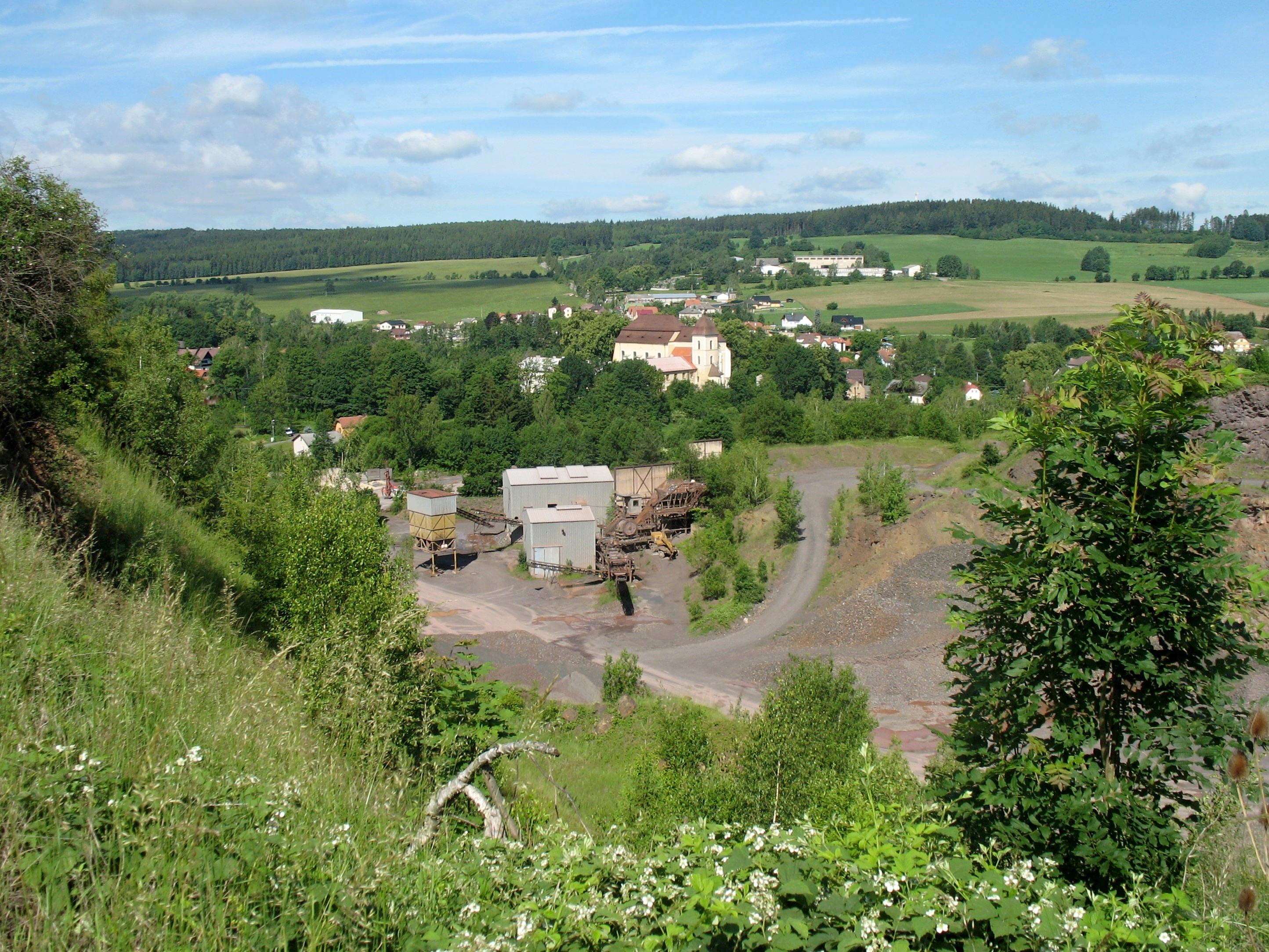 Zaječov Quarry, Central Bohemian Region